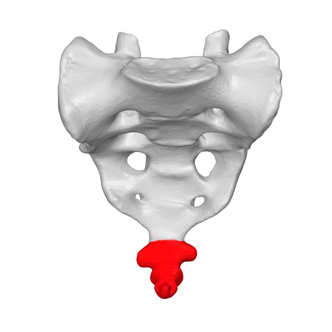 Coccyx. Shown in red.